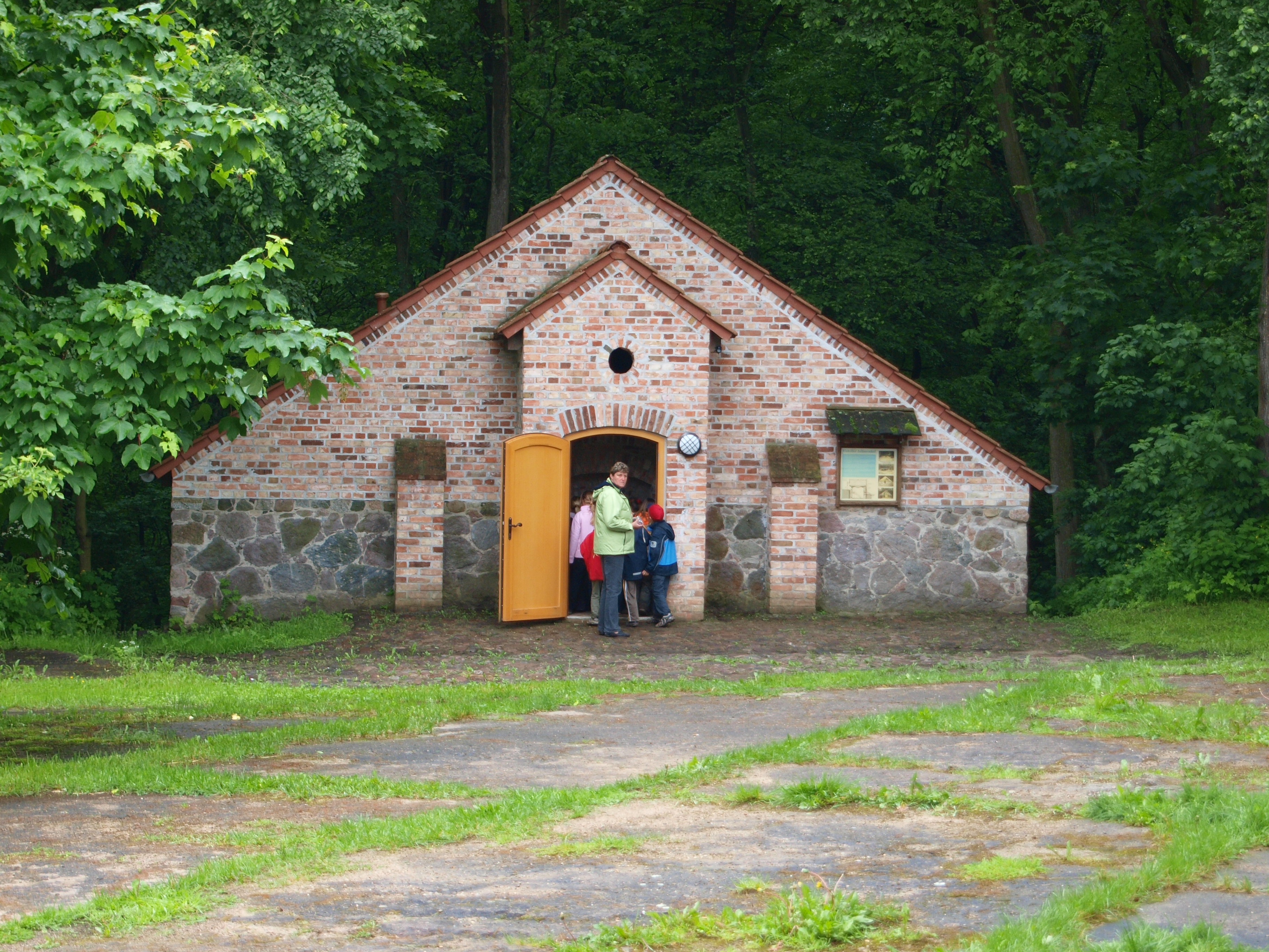 Icehouse bat Museum